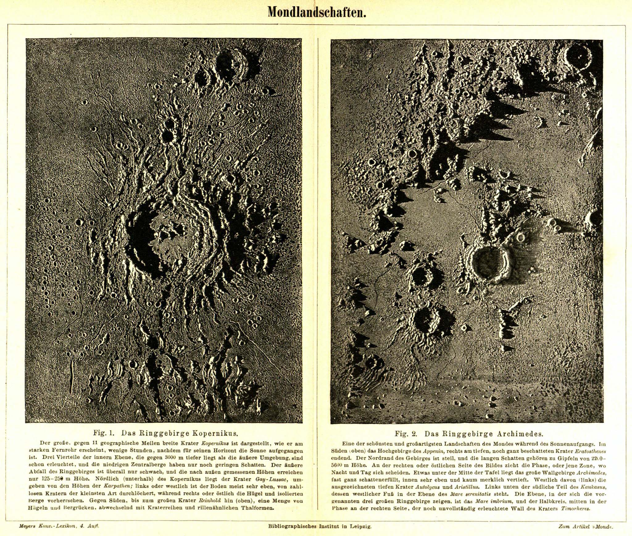 Geography of the Moon. 1. Around the crater Copernicus. 2. In the neighbourhood of the Montes Archimedes.